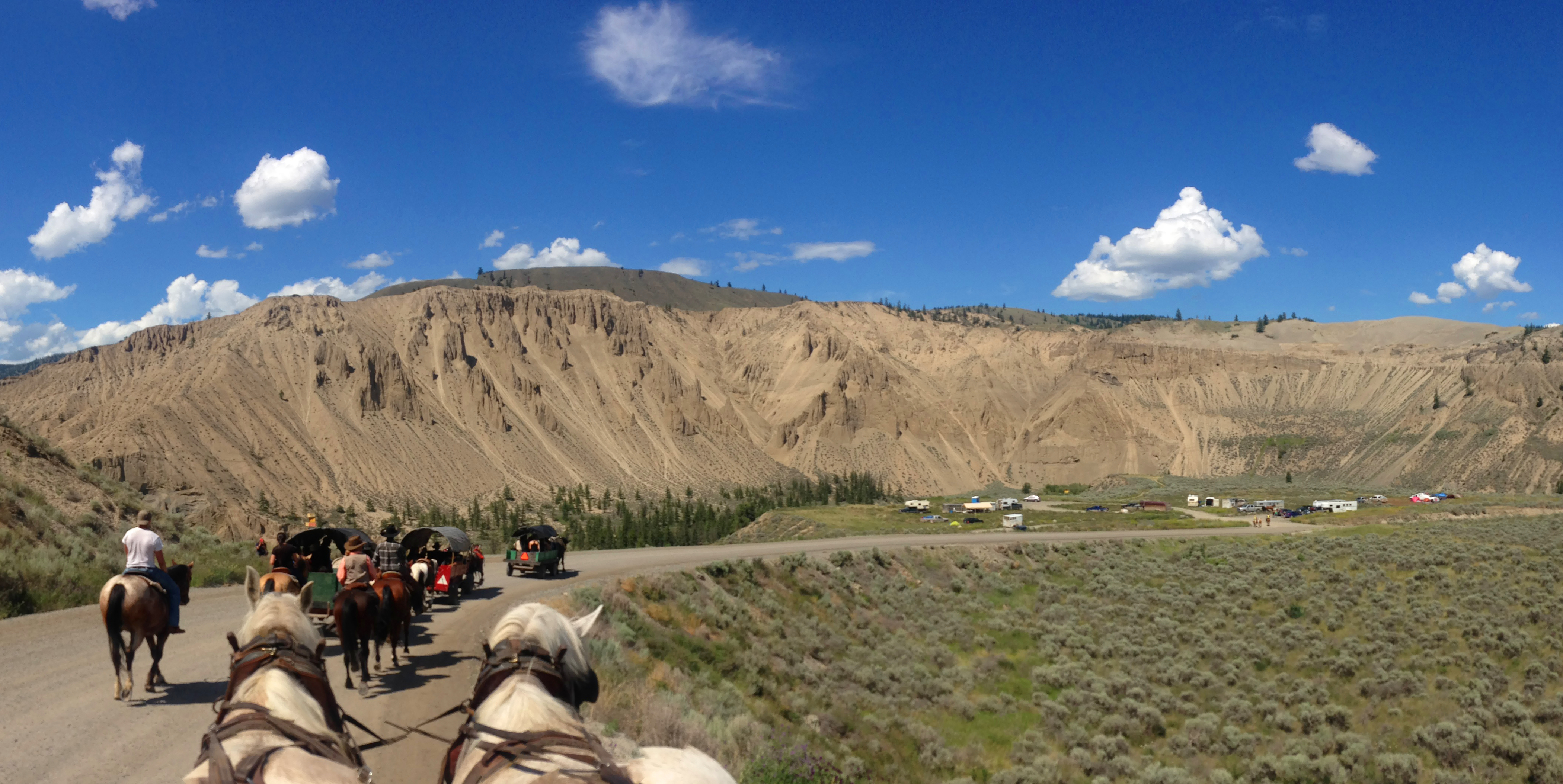 Approaching Nagwentled (Farwell Canyon) from the south.